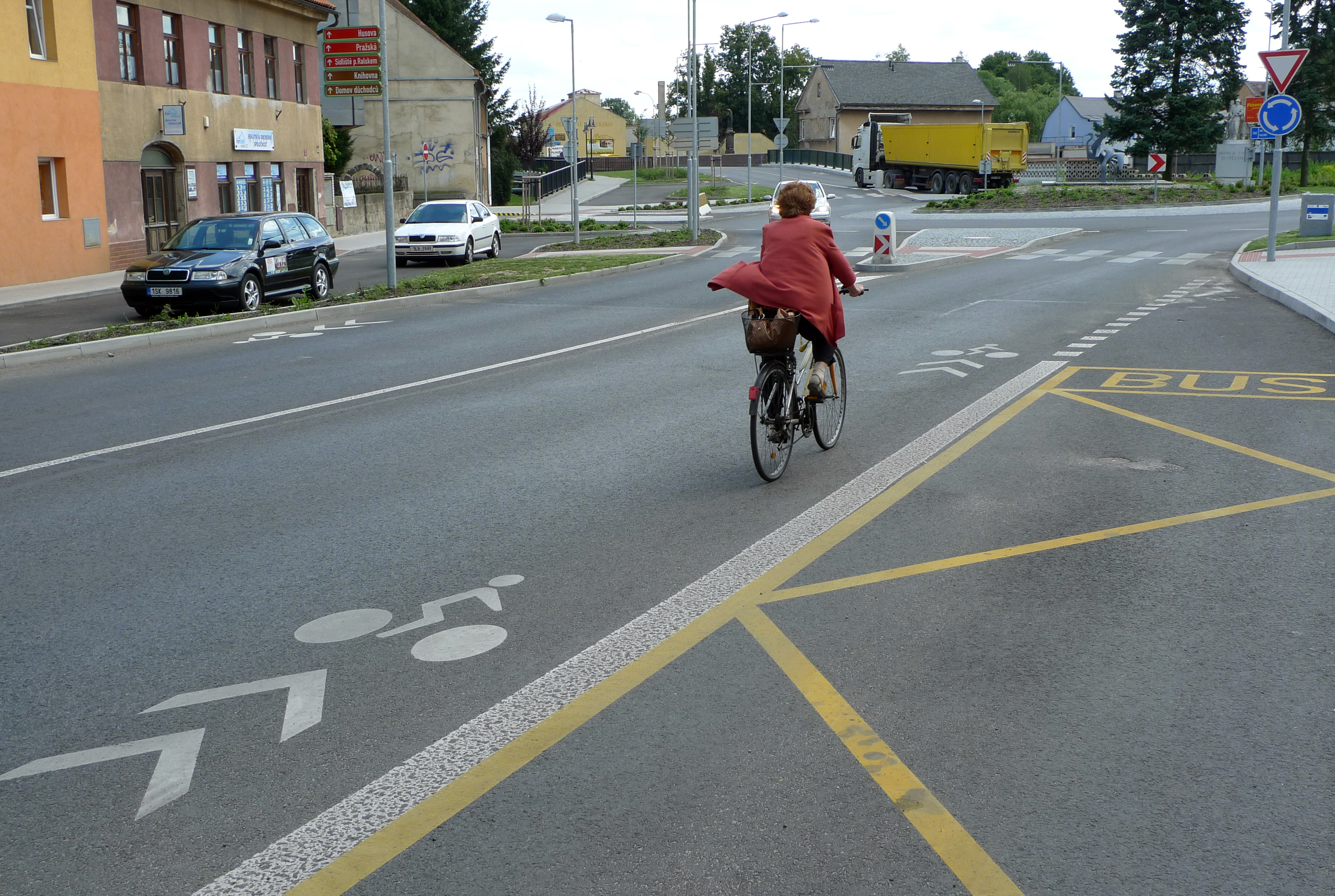 Mimoň in the Czech Republic - cycle lane in Mírová Street